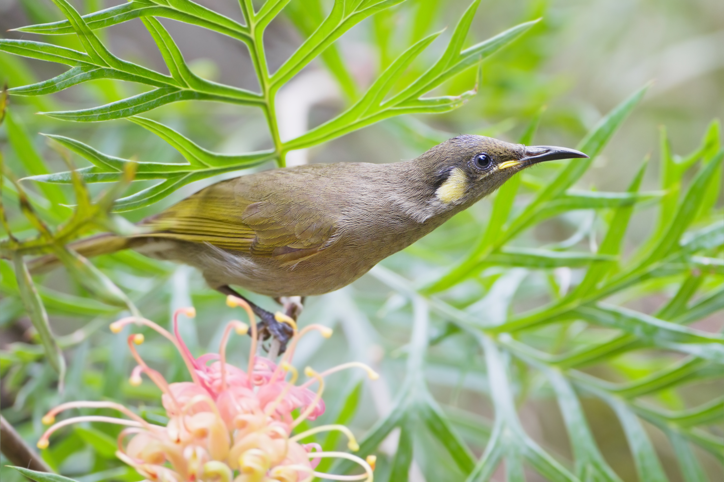 Graceful Honeyeater (Meliphaga gracilis), Julatten, Queensland, Australia